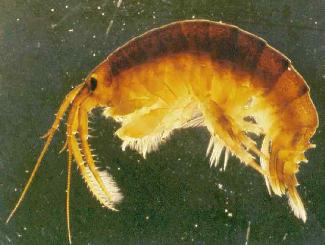 Dikerogammarus villosus. Photo by S. Giesen (1998).